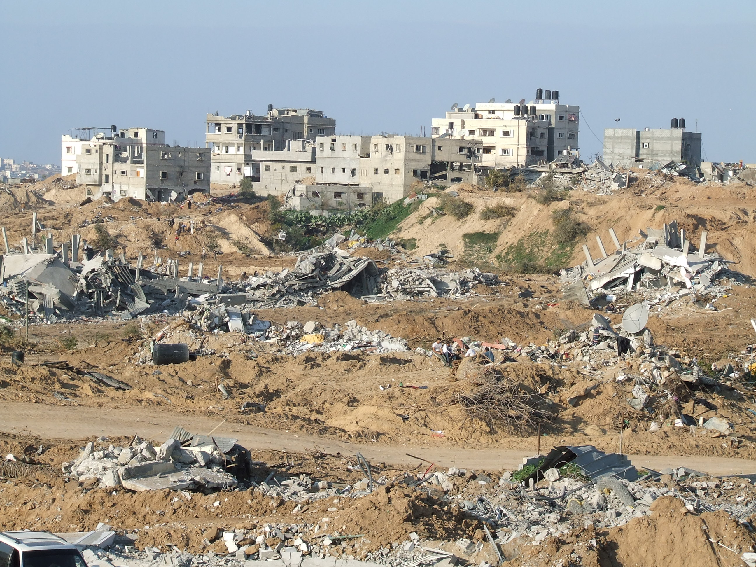 There were homes here